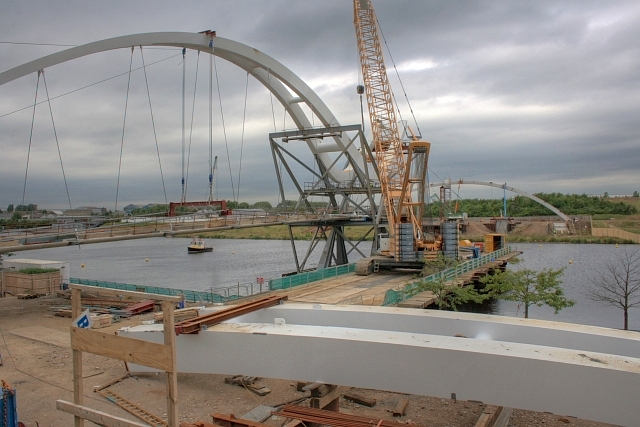 North Shore Footbridge (Infinity Bridge) Stockton-on-Tees during the construction phase.